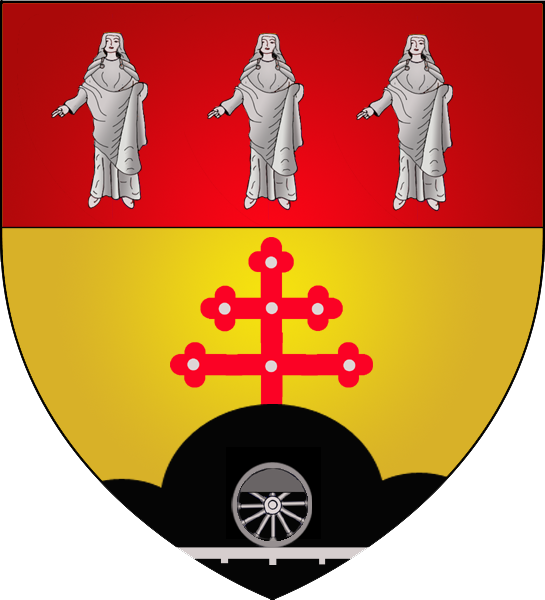 Coat of arms of the municipality of Troisvierges, Luxembourg